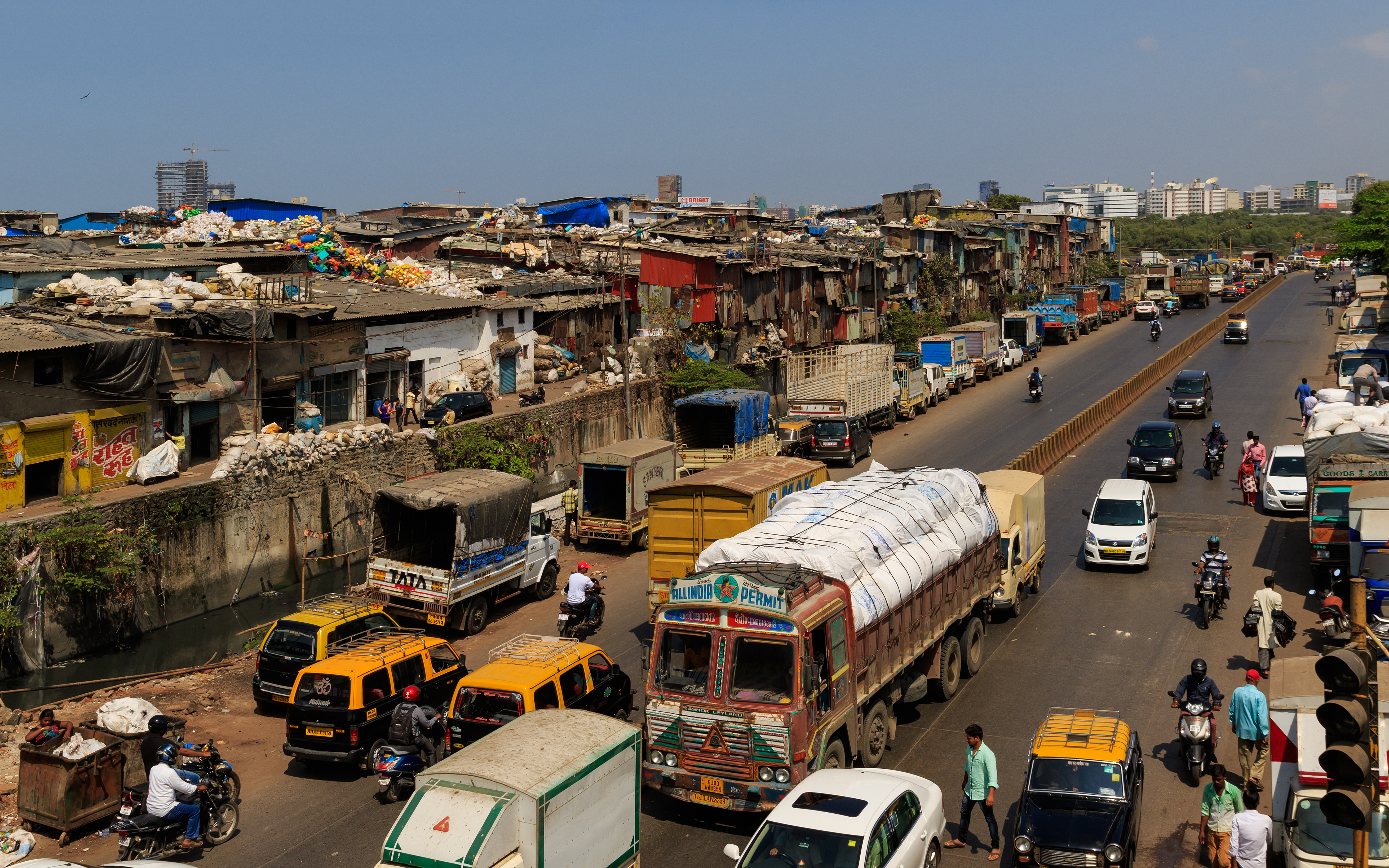 Dharavi settlement near Mahim Junction in Mumbai, India